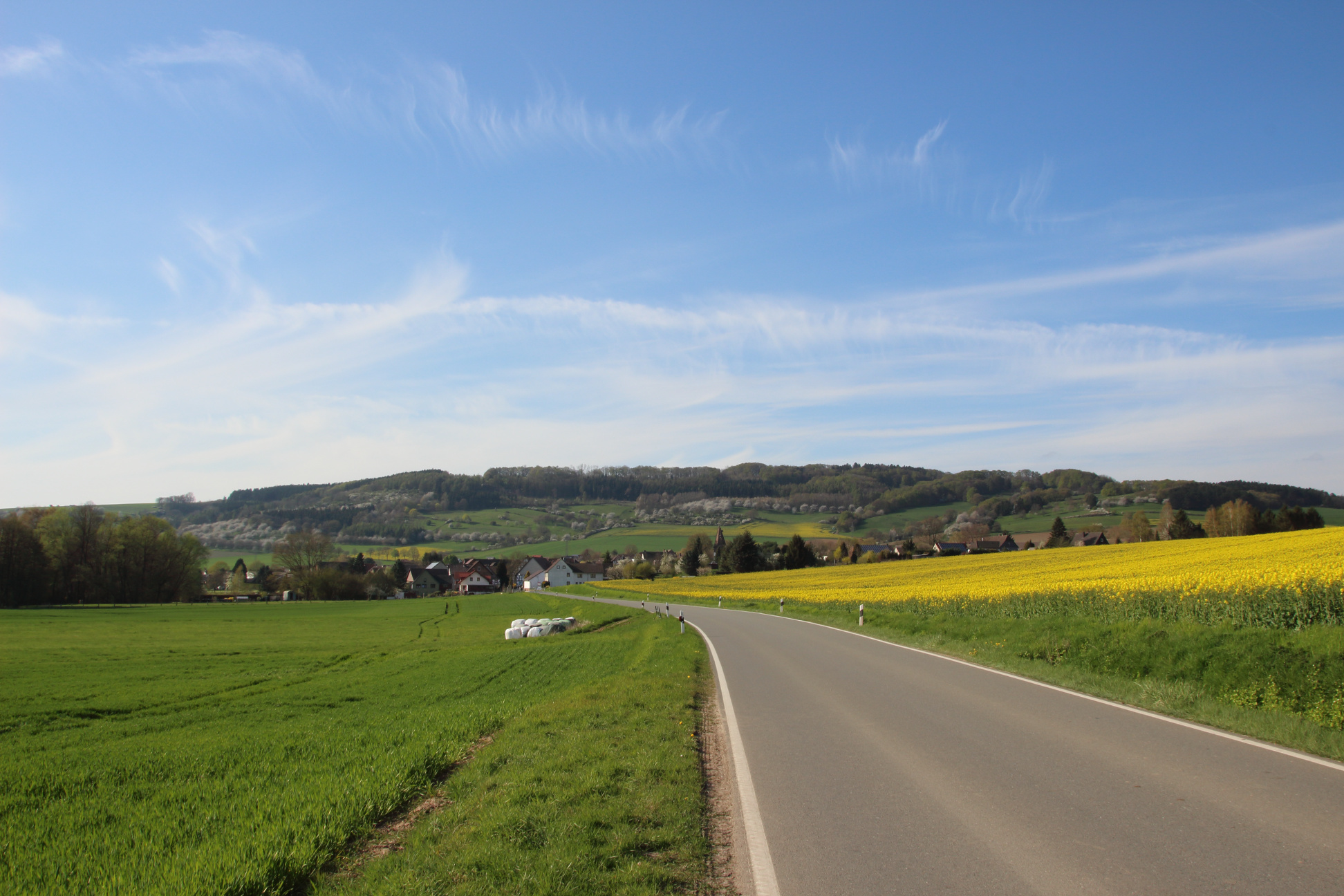 view over village Golmbach to south side of "Rühler Schweiz"